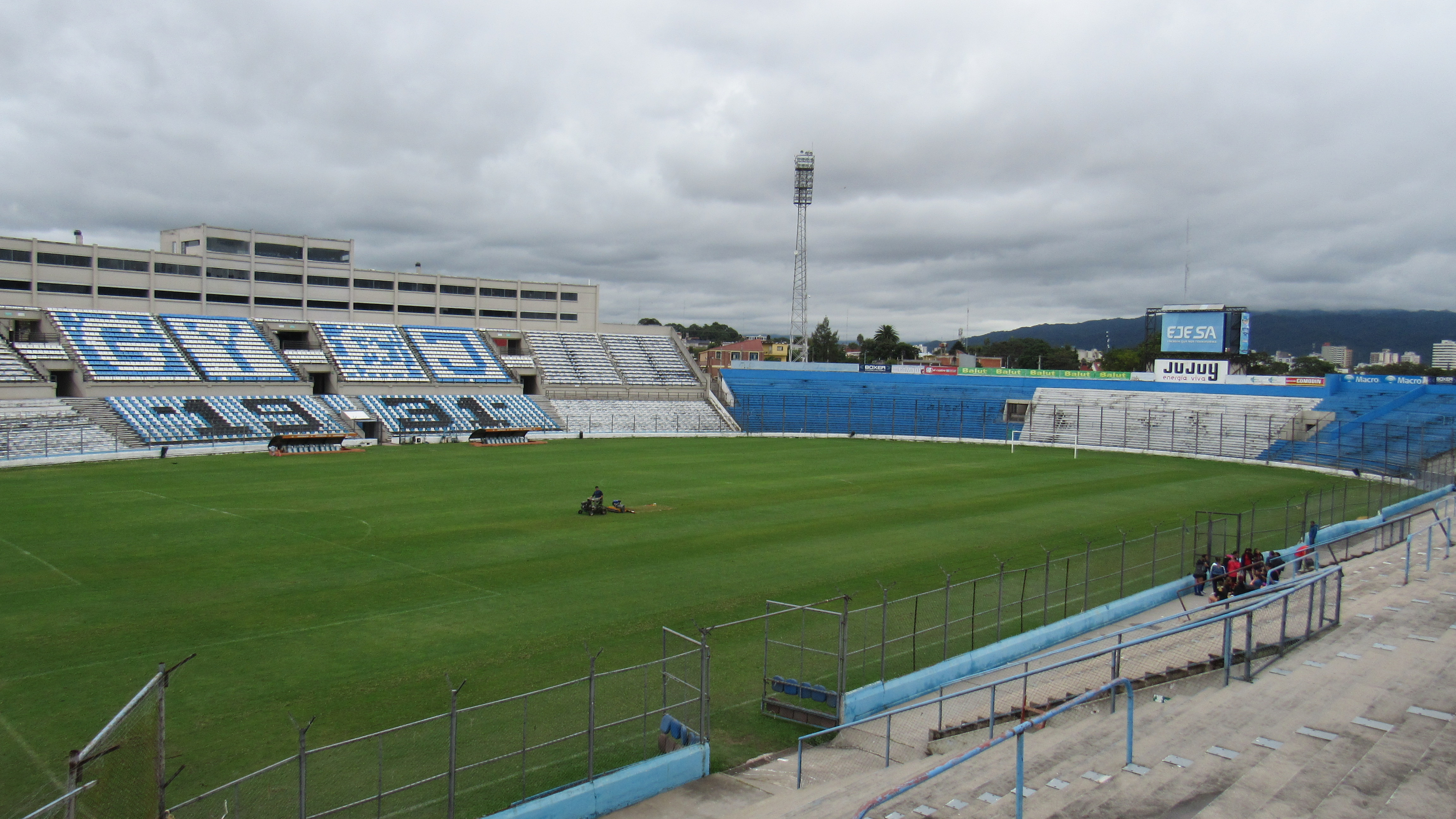 23 de Agosto stadium of Club Atlético Gimnasia y Esgrima of Jujuy - San Salvador de Jujuy, Northwest of Argentina